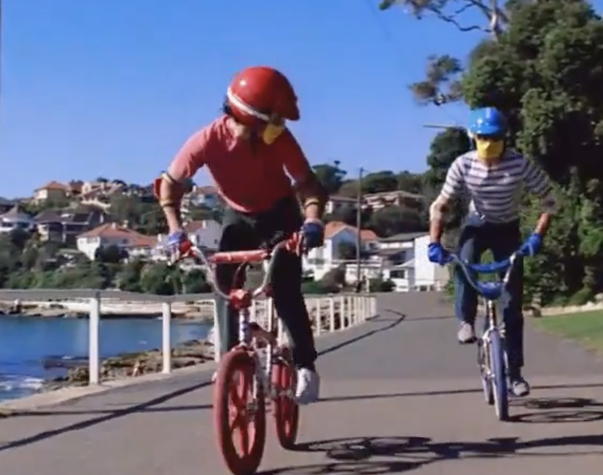 Not my work, added for Wikipedia